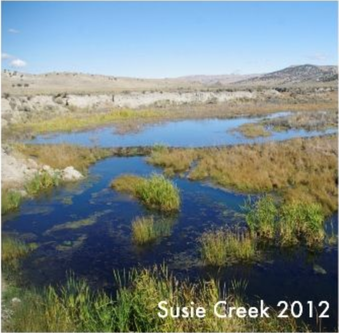 Susie Creek after rotation schedule for cattle grazing and re-colonization by beaver.